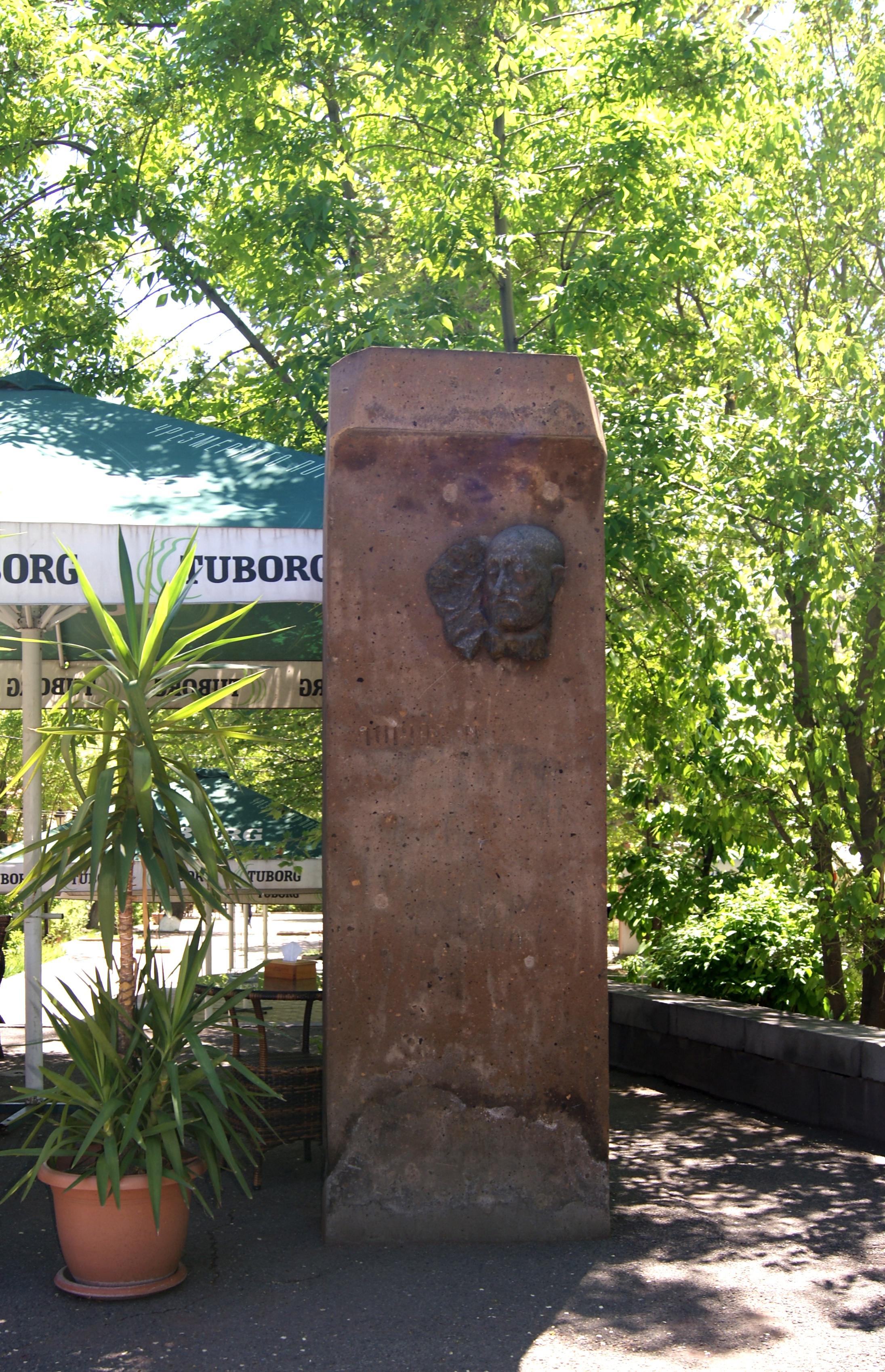 Monument to Komitas on Komiras Avenue